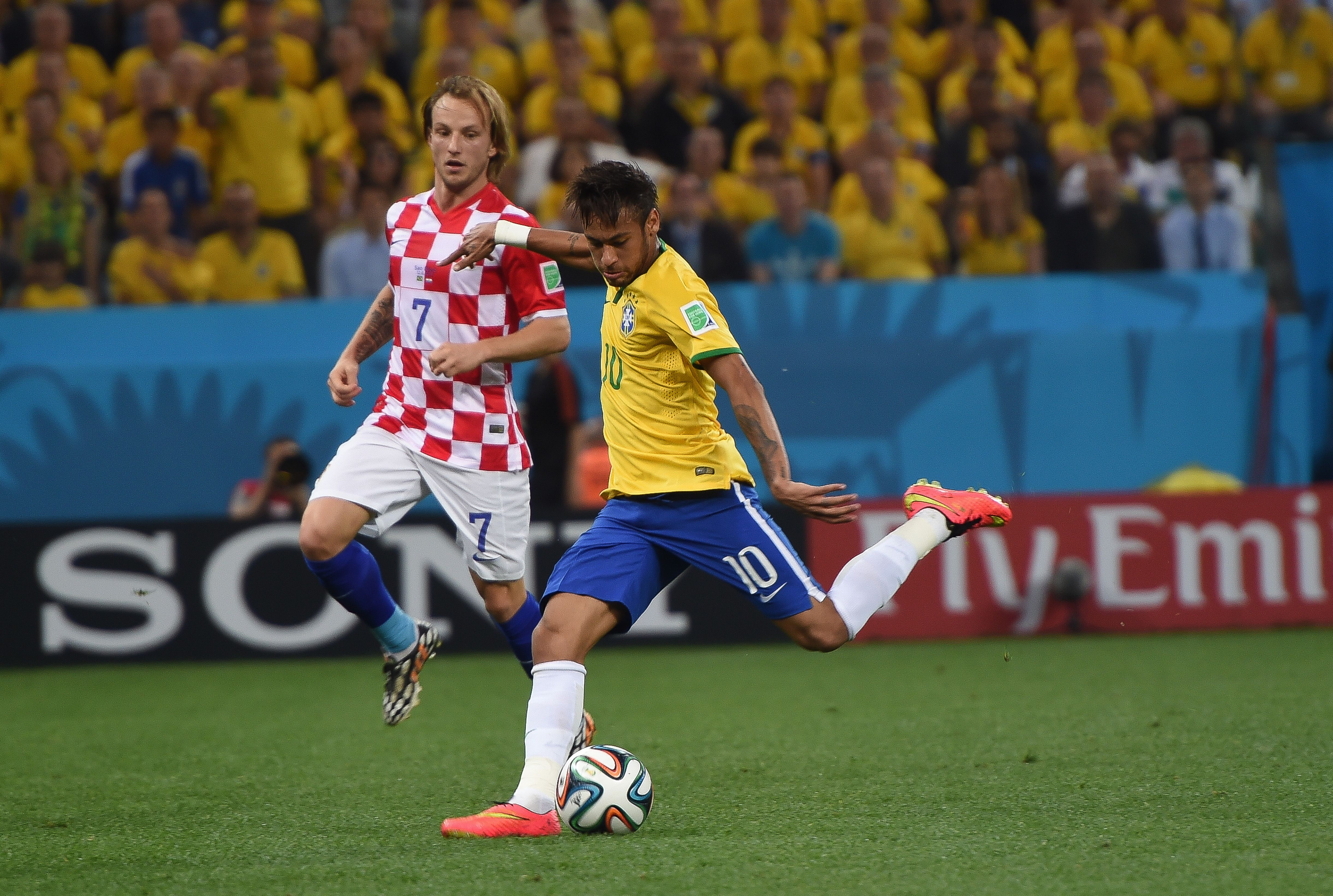 Brazil and Croatia match at the FIFA World Cup 2014-06-12